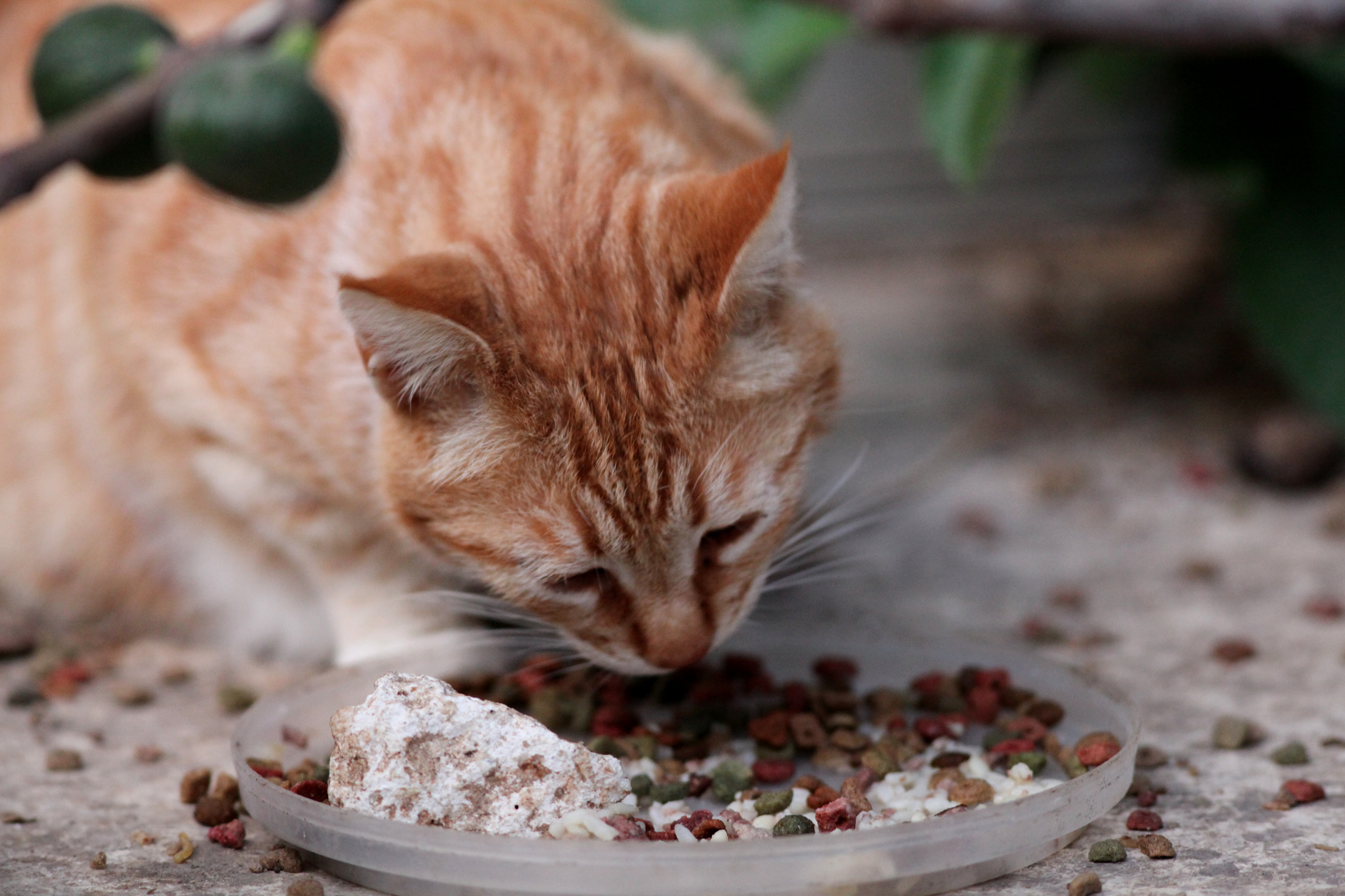 Cat shelter and feeding place at Triq il-Bekkum in St. Paul's Bay, Malta